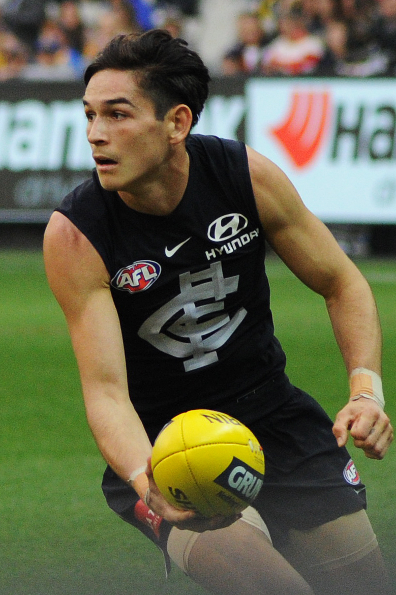 Zac Fisher during the AFL round five match between Carlton and West Coast on 21 April 2018 at the Melbourne Cricket Ground in Melbourne, Victoria.